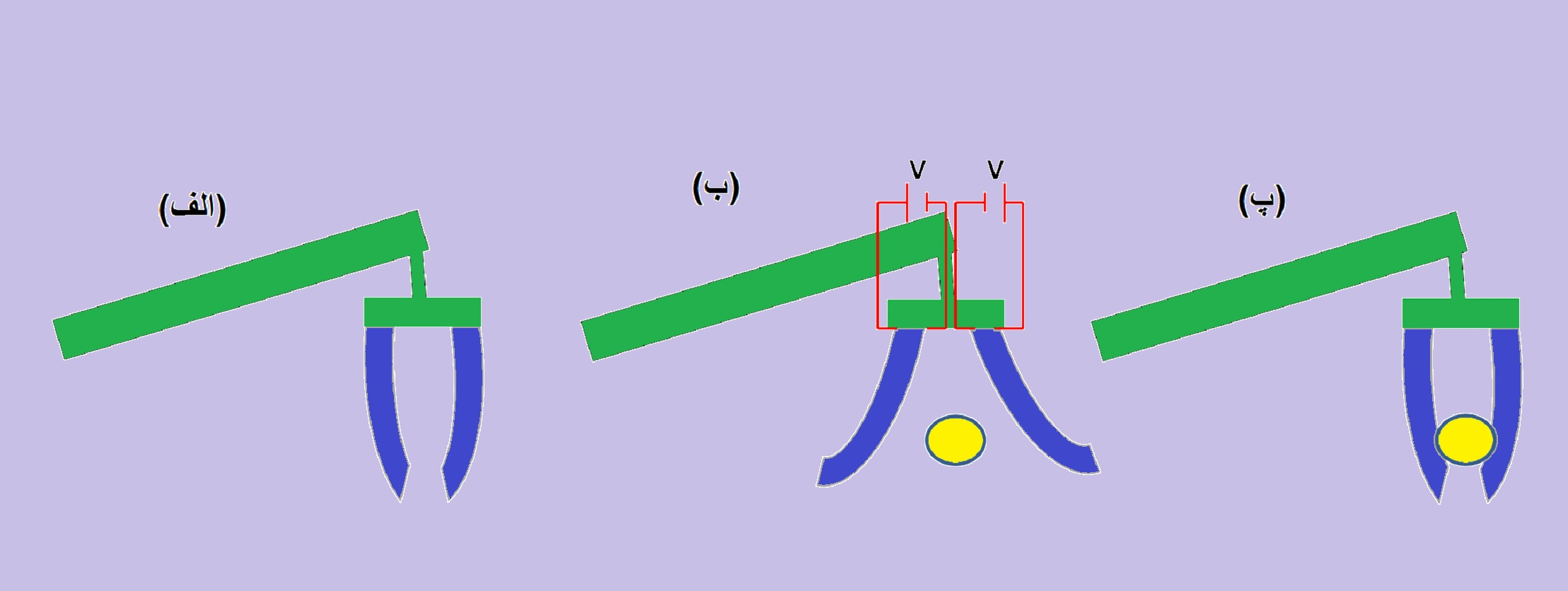 (a) Cartoon drawing of an EAP gripping device. (b) A voltage is applied and the EAP fingers deform in order to surround the ball. (c) When the voltage is removed, the EAP fingers return to their original shape and release the ball.